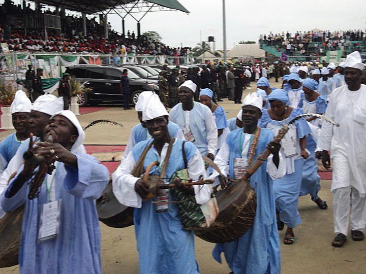 Pictures from the closing ceremony of National Festival of Arts and Culture (NAFEST) 2010 in Uyo, Akwa Ibom state Nigeria. This is an image of Cultural Fashion or Adornment from Nigeria